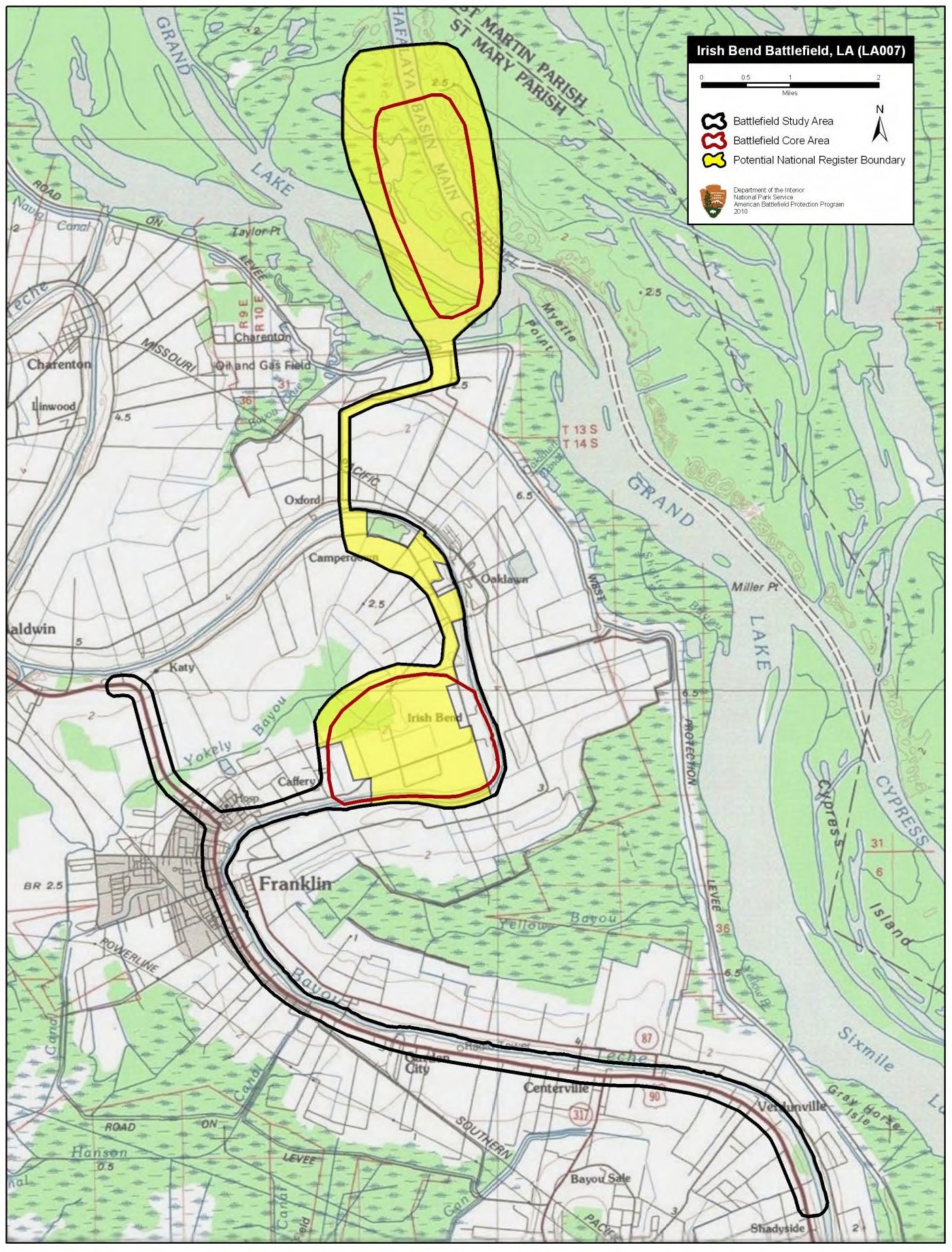 Map of battlefield core and study areas. The revised Study Area includes the locations of the Federal landing north of the battlefield and the subsequent naval action at Grand Lake. The southern Core Area was shortened to the point where the CSS Diana engaged the flank of the Federal line. The ABPP added a new Core Area to the north to include the area where Federal naval forces sank the CSS Queen of the West.